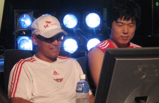 juhun